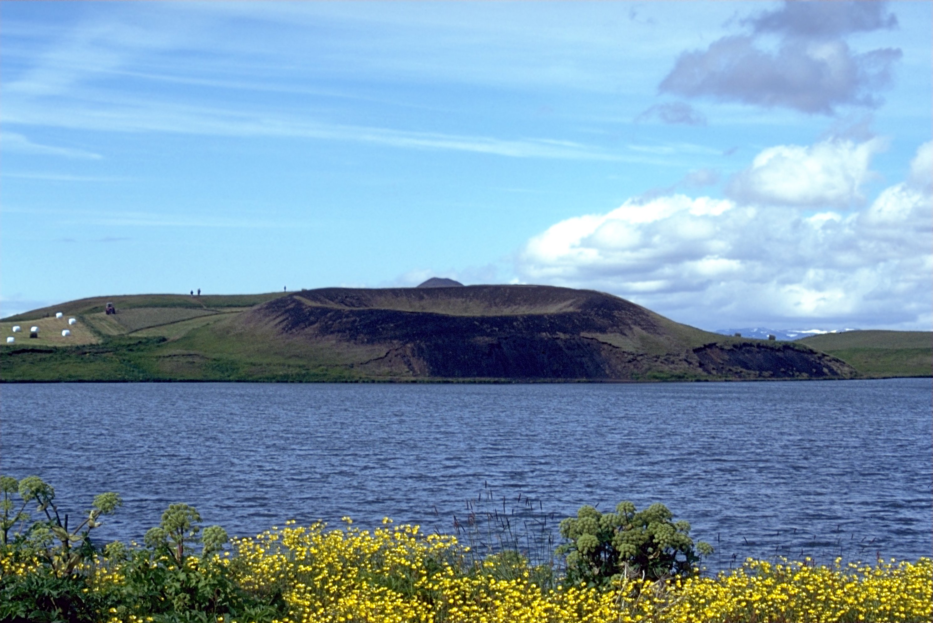 Pseudocraters in lake Mývatn, Iceland Photo was taken using the following technique: Film: Kodac Elite 100 Lens: 28-80 Filter: Body: Minolta 600si Support: Image with Information in English Bild mit Informationen auf Deutsch